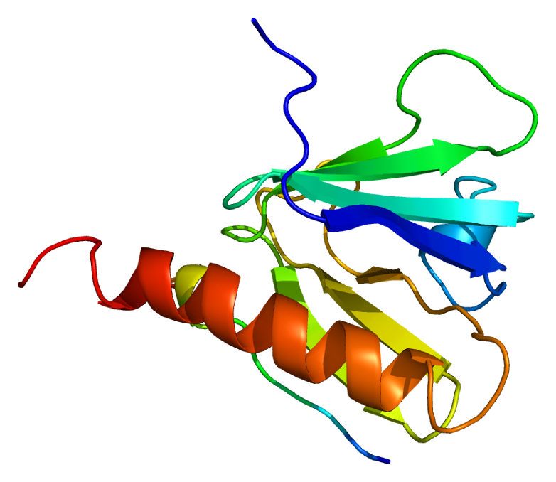 Structure of the IRS1 protein. Based on PyMOL rendering of PDB 1irs.